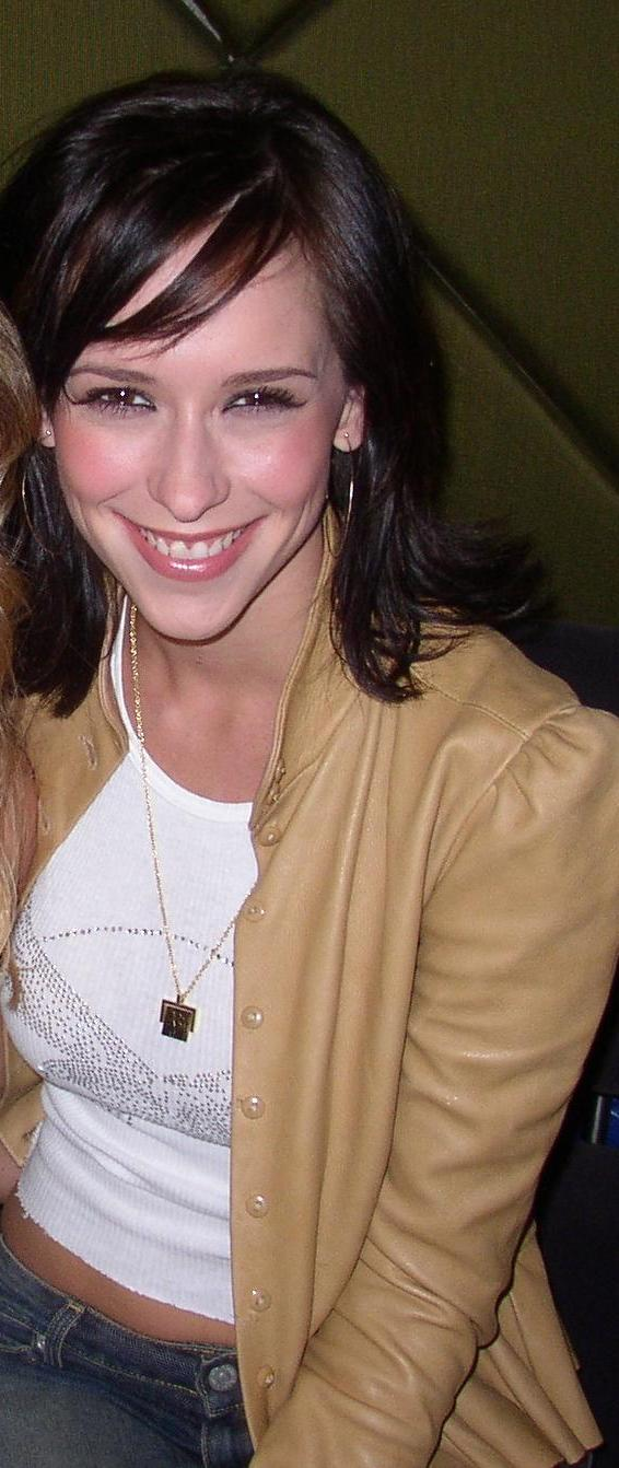 Jennifer Love Hewitt (cropped)